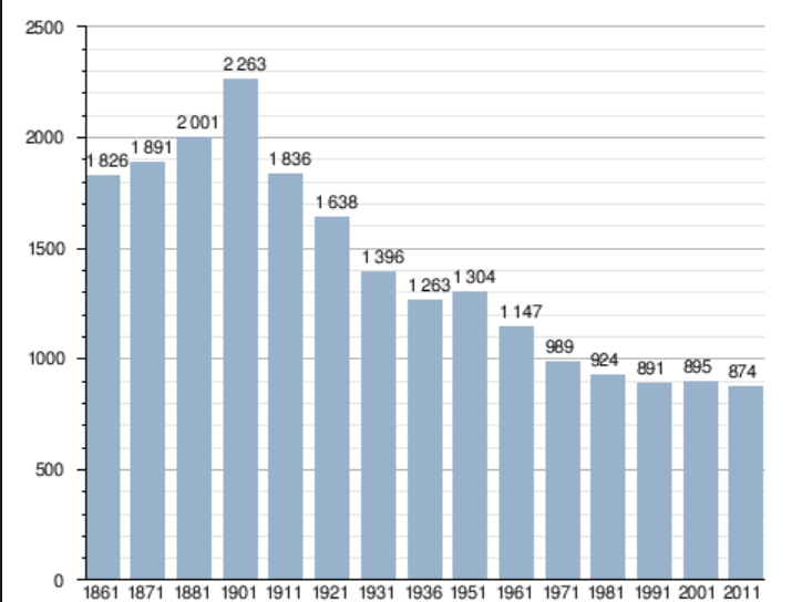 Registered inhabitants of Ameno